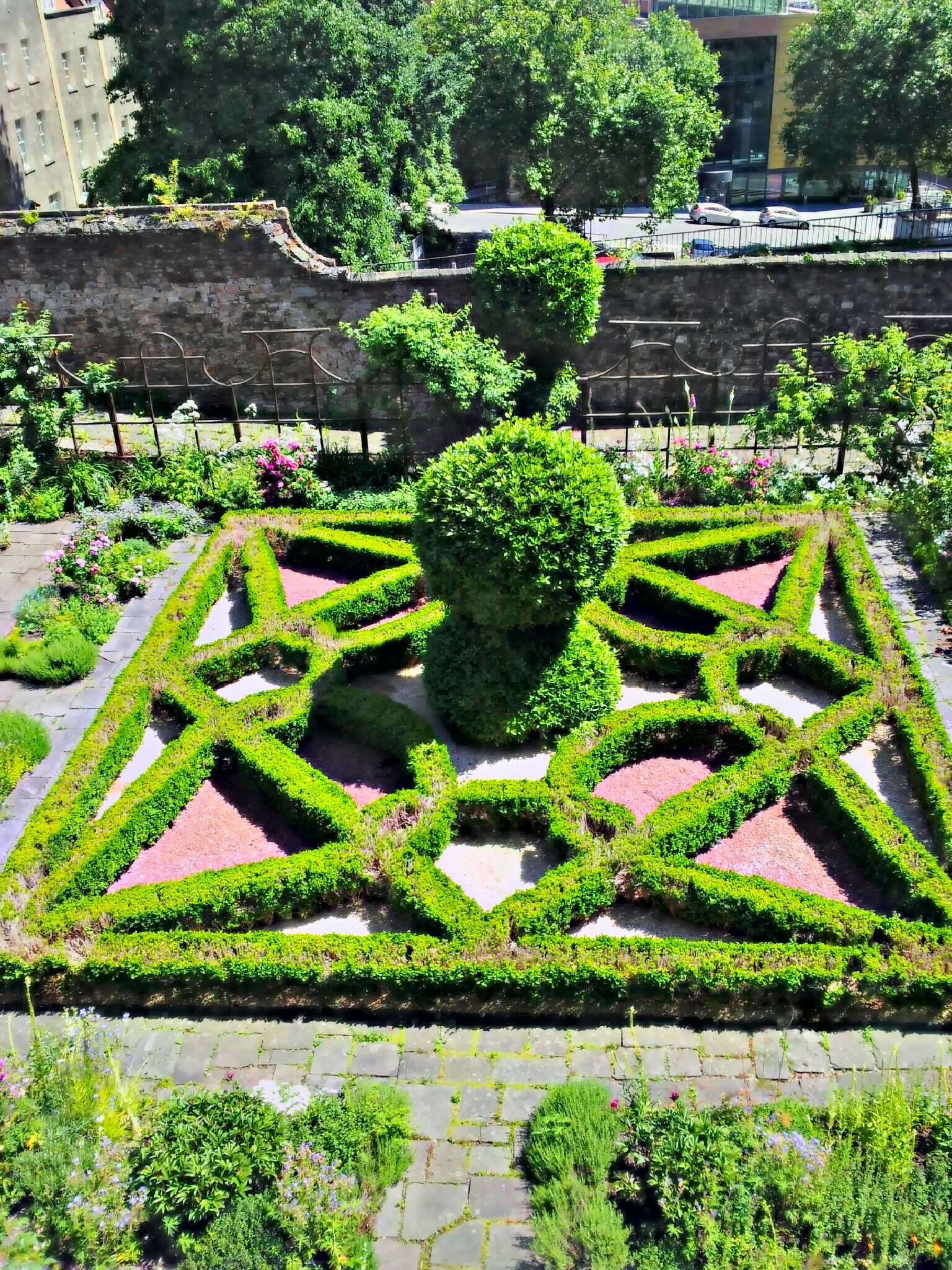 Tudro and Georgian furniture at the Red Lodge Museum in Bristol